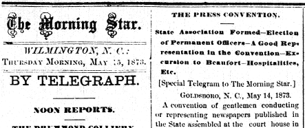 Article announcing the first convention of the North Carolina Press Association from the Morning Star newspaper in Wilmington, North Carolina on May 15, 1873